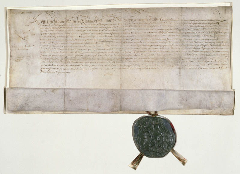 Letter from the King of France granting nobility to Robert Giffard de Moncel and his descendants, in recognition of his “commendable virtues and qualities.” Giffard was born in 1587 in Mortagne-au-Perche, France. A navy doctor, he first visited New France in 1627 and moved to the colony in 1634. Granted a seigneurie in Beauport near Quebec City, Giffard distinguished himself in ongoing hostilities between the colonists and the Iroquois. A member of the Council of Quebec in 1648, he was granted noble status in 1658 and he died in 1668.